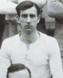 Tom Page